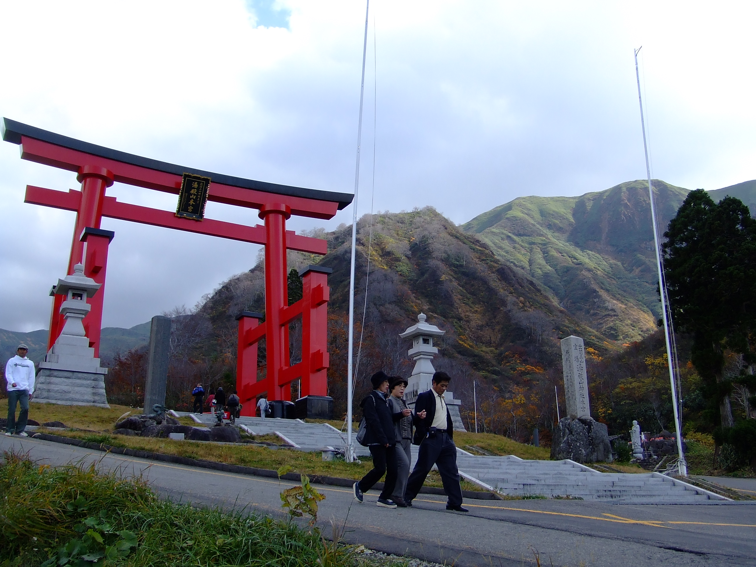 This is the torii gate at the entrance of the Yudonosan Shrine in Yamagata Prefecture, Japan. I took this photo with a digital camera on 28th October 2006.